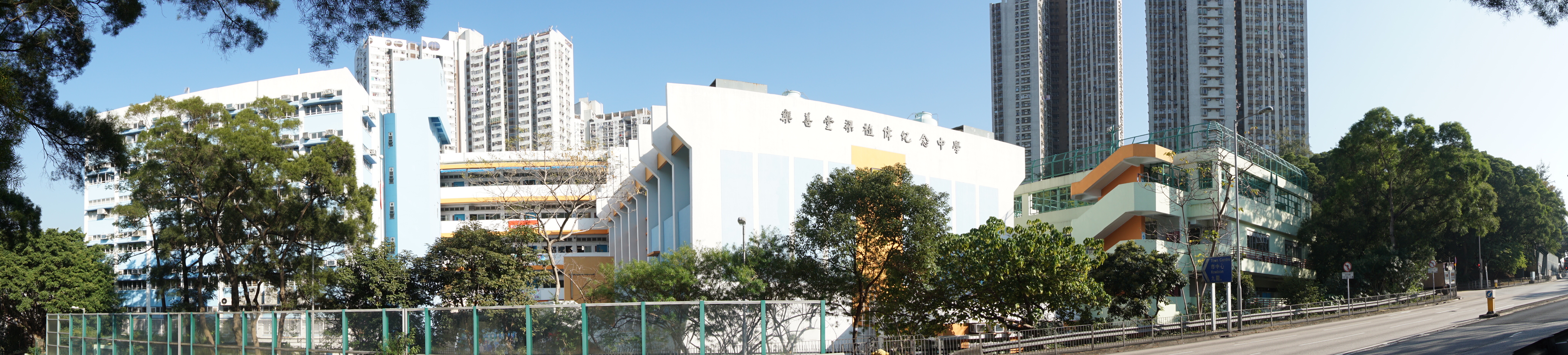 Lok Sin Tong Leung Chik Wai Memorial School in Tsing Yi, Hong Kong.